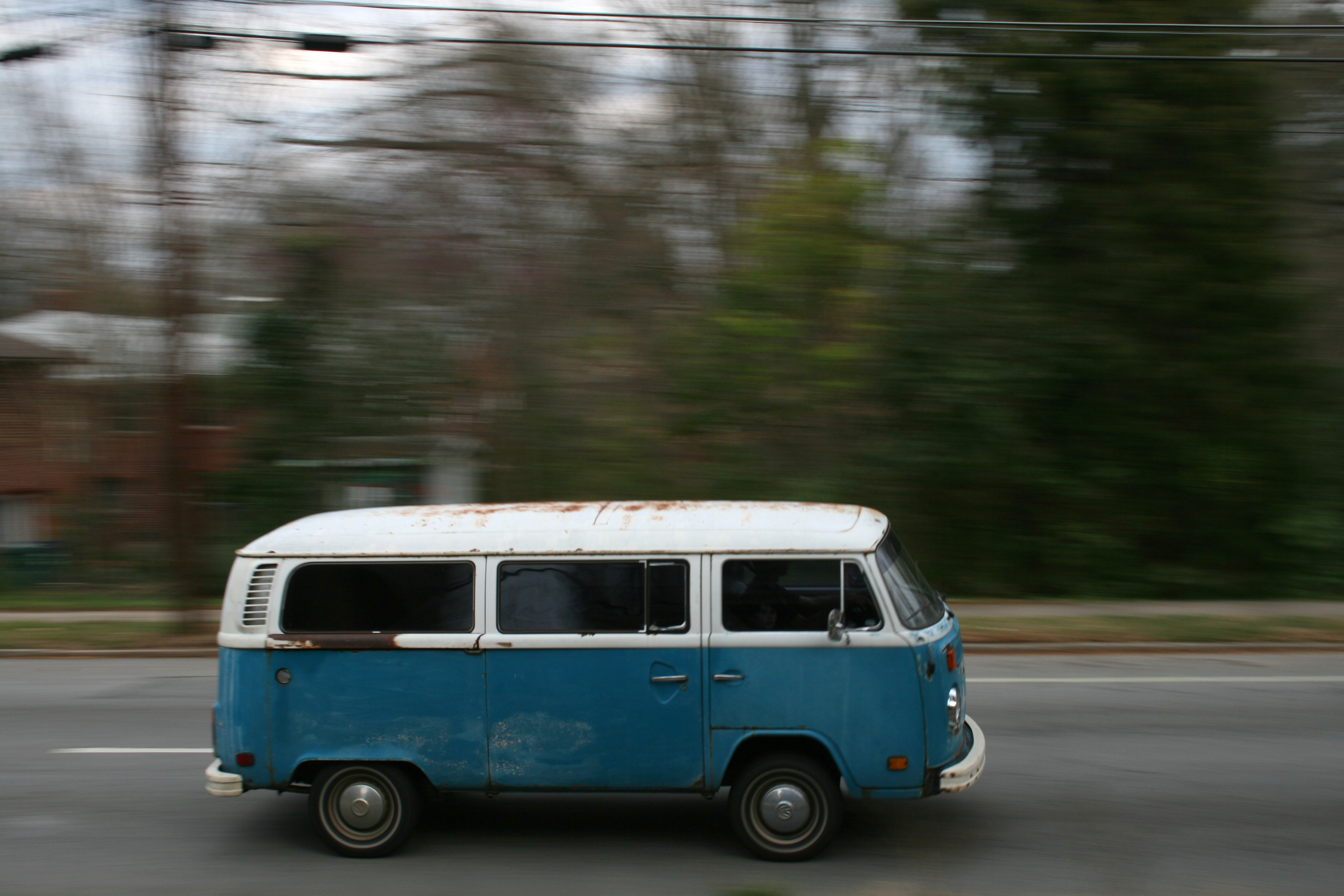 A Volkswagen van travelling southbound on North Gregson Street in Durham, North Carolina.